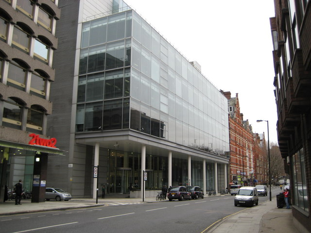 Holborn: ITN Building, 200 Gray's Inn Road, WC1 ITN is the trading name of Independent Television News Limited, and provides the news service for the UK's commercial television stations. The building on the site had previously belonged to The Times newspaper, and included a vast basement area for the printing presses. It was refurbished to the designs of Foster + Partners in 1990. In the national road numbering scheme Gray's Inn Road is the A5200.